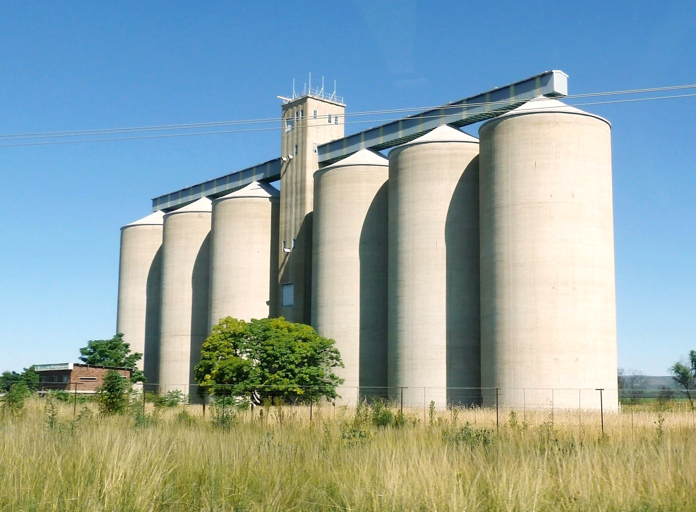 Grain silo in Vaalwater, Limpopo, South Africa. It was opened September 1983 and has a capacity of 30,000 tons.